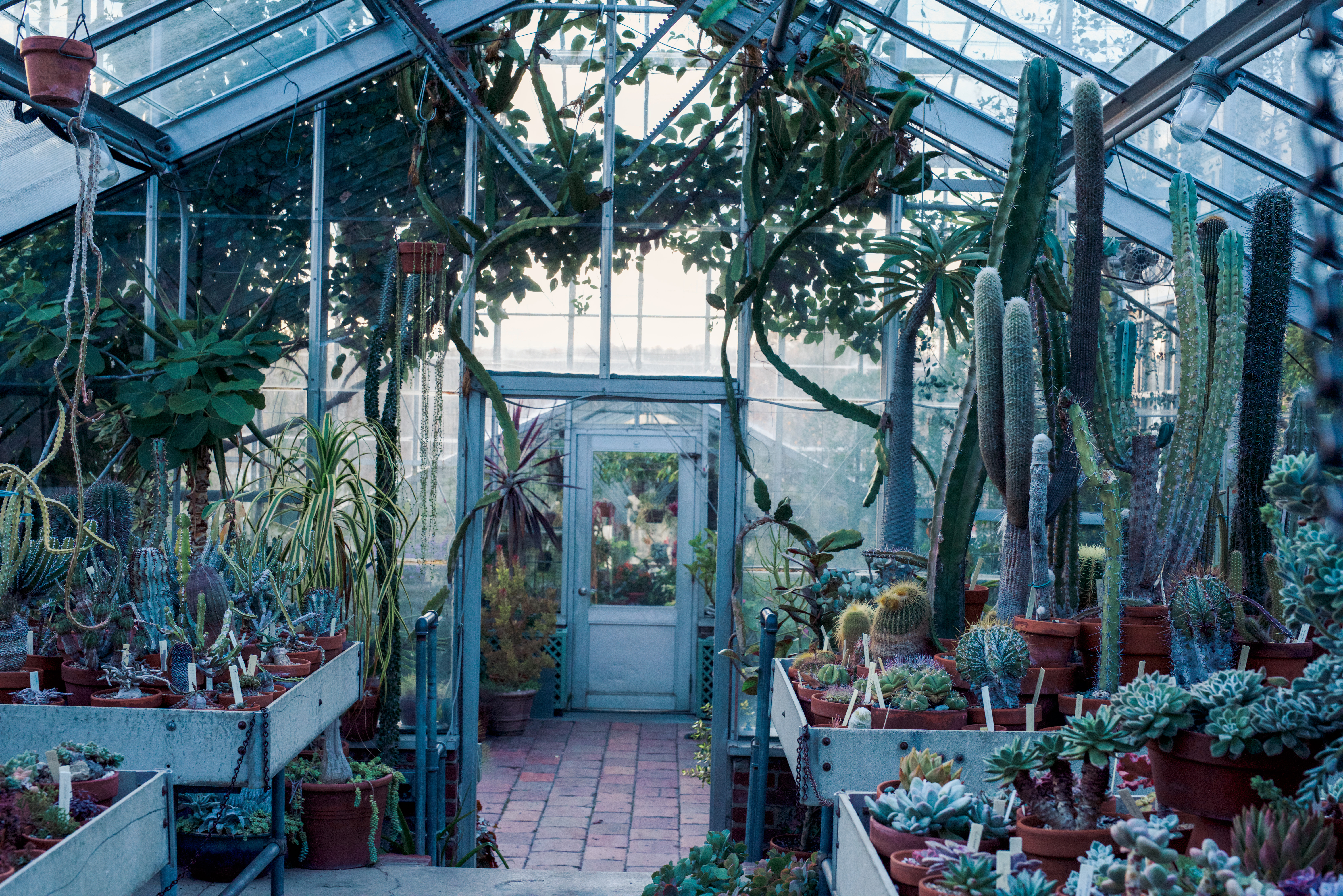 Wave Hill botanical garden.